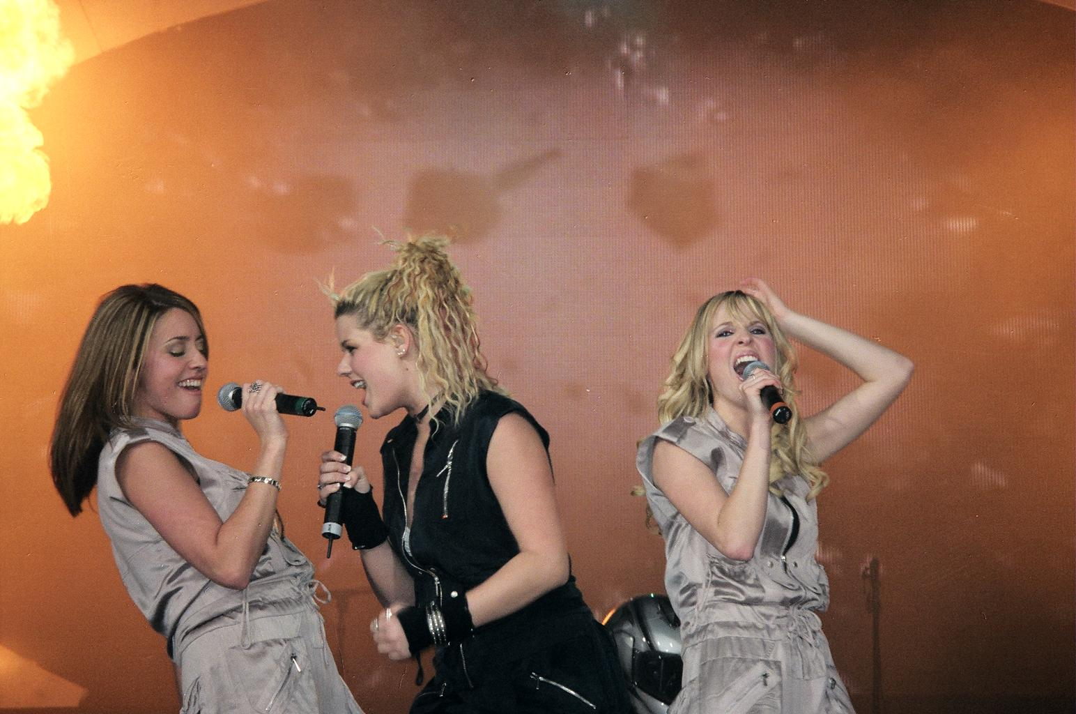 In concert: Julia DeMato (l), Kimberly Caldwell (m), and Carmen Rasmusen (r). Personal photo. No restrictions on use, as long as photo is attributed to Jane T. of North Carolina. Moving to Wikipedia Commons I uploaded the original of this photo to Wikipedia, and have no problem with it being moved to the Wikipedia Commons. Again, no restrictions on use, as long as the photo is attributed to Jane T. of North Carolina. User:JD_Fan 28 June 07